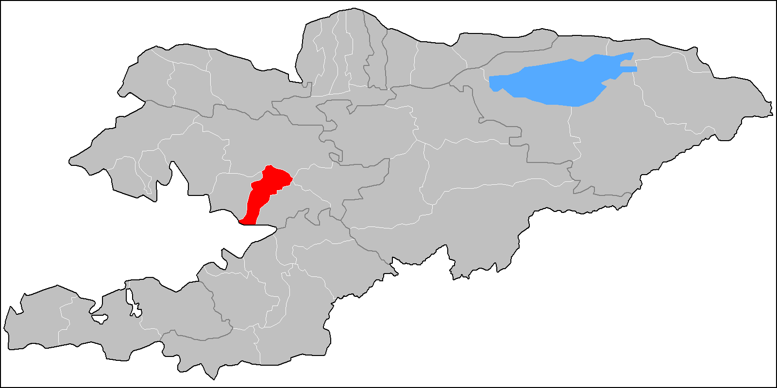 The location of the raion (district) of Bazar-Korgon in Kyrgyzstan. Based on Image:Kyrgyzstan raions.png